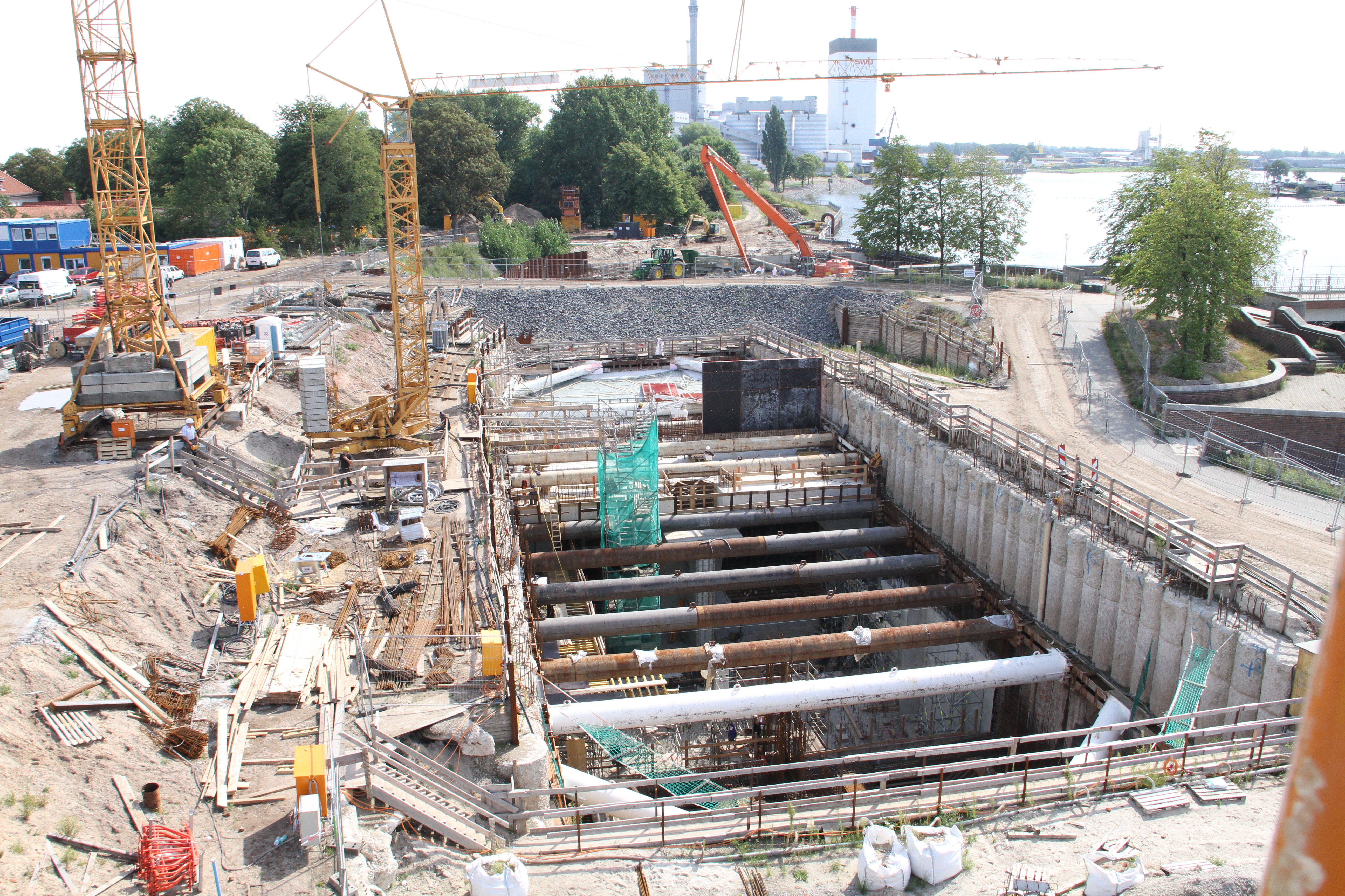 View on the construction site of the hydroelectric power plant on the river Weser in Bremen, Germany.